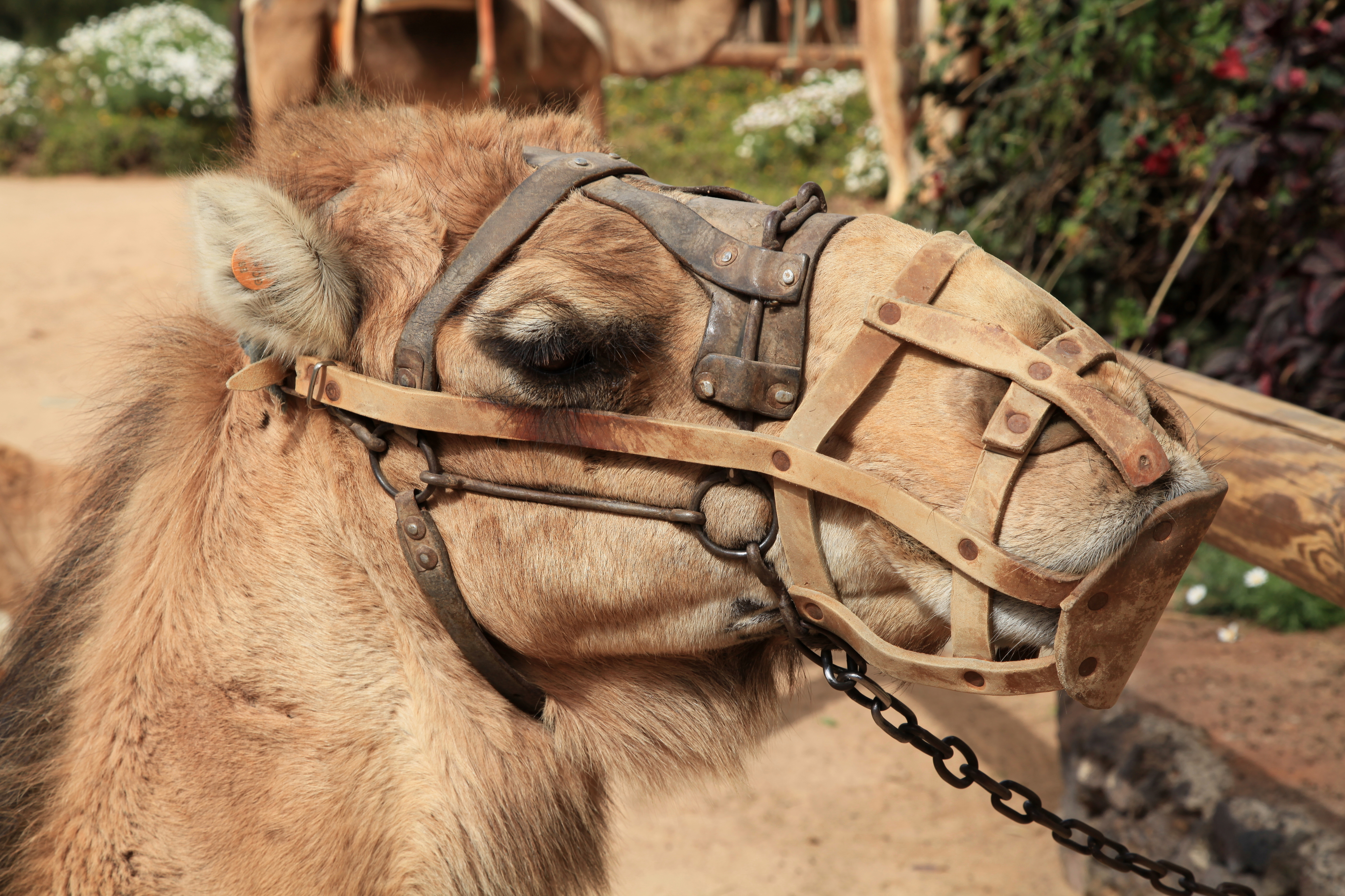 Camelus dromedarius in the Oasis Park in La Lajita, Pájara, Fuerteventura, Canary Islands